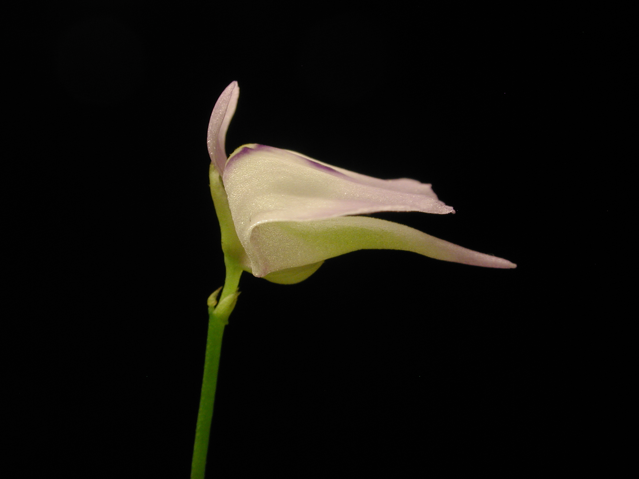 Utricularia pubescens flower from side